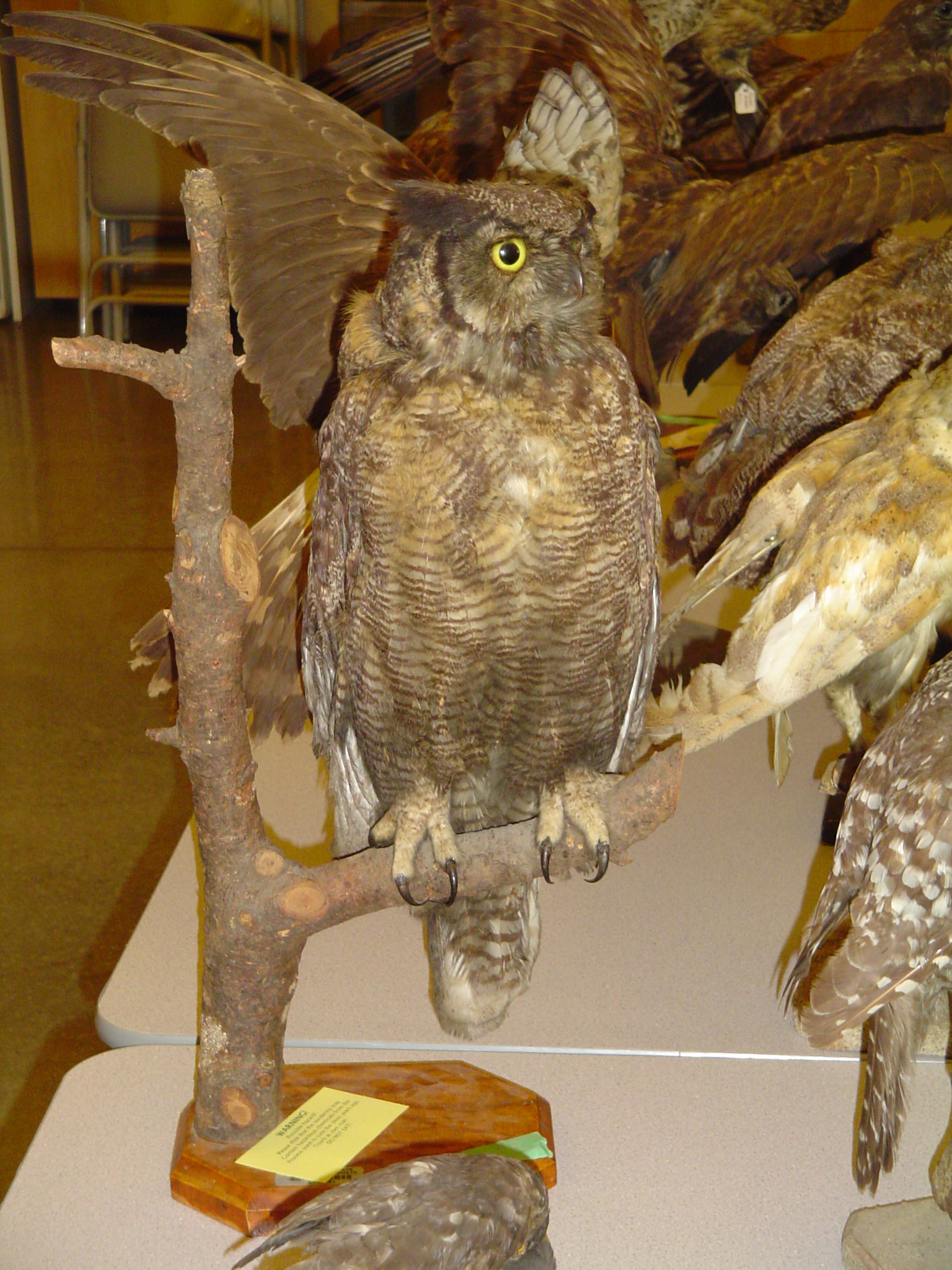 Images of a few of the bird and mammals, the collection at Jackson Bottom Wetlands Preserve.Specimens